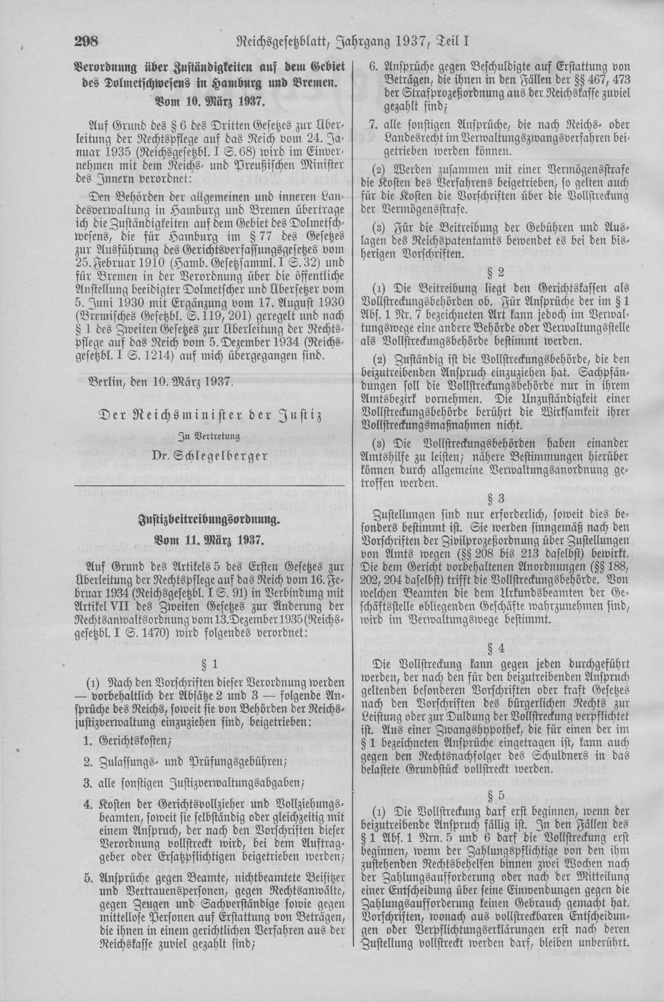 Scan from the Imperial Law Gazette of Germany, 1937, part 1